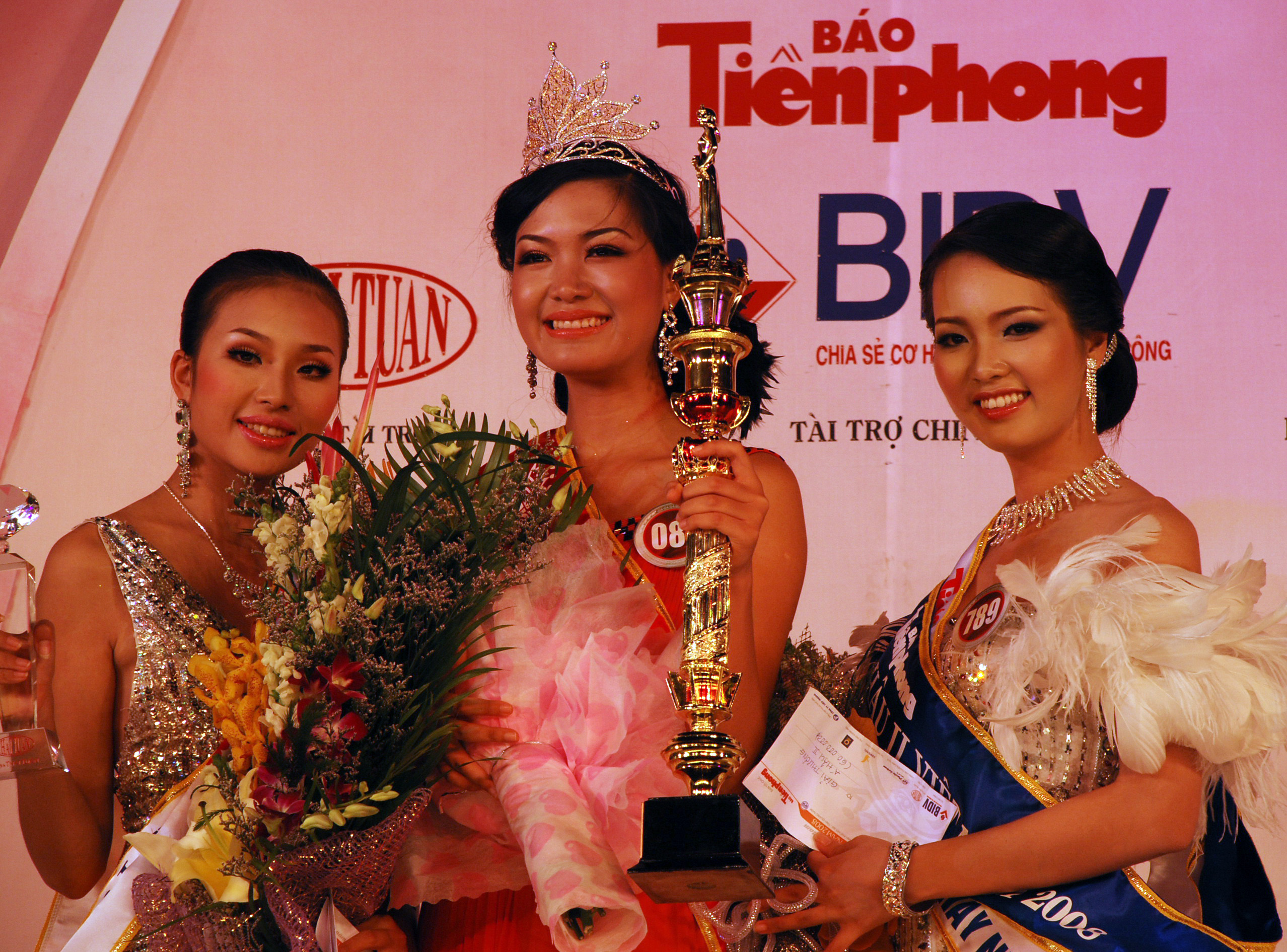 Á hậu 1 Phan Hoàng Minh Thư, Miss Trần Thị Thùy Dung và Á hậu 2 Nguyễn Thụy Vân